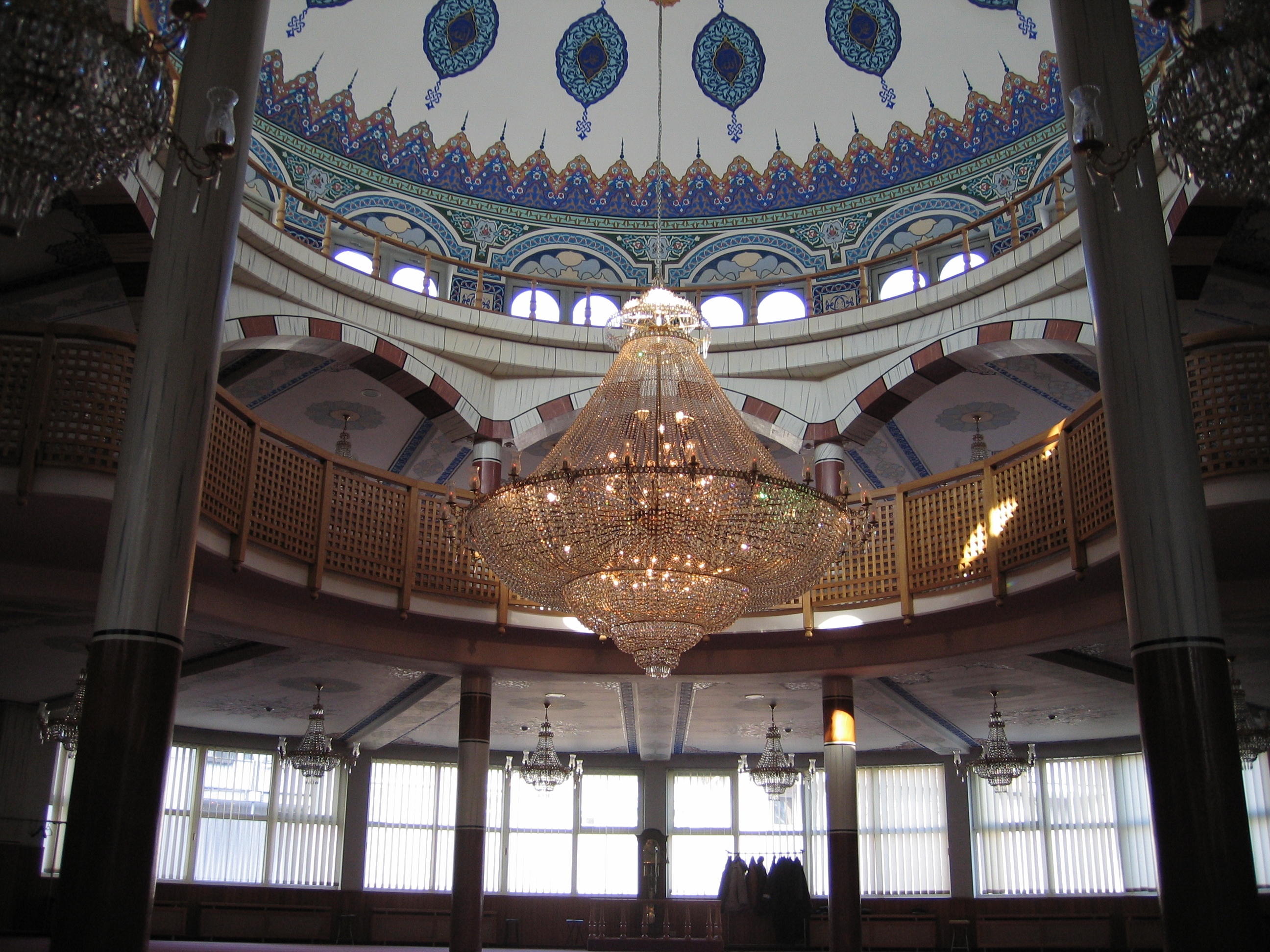 Yavuz Sultan Selim Mosque, Mannheim, Germany, inside, view to North-West